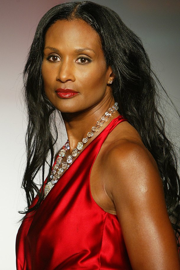 Beverly Johnson modeling in The Heart Truth’s Red Dress Collections at New York’s Fashion Week, 2004